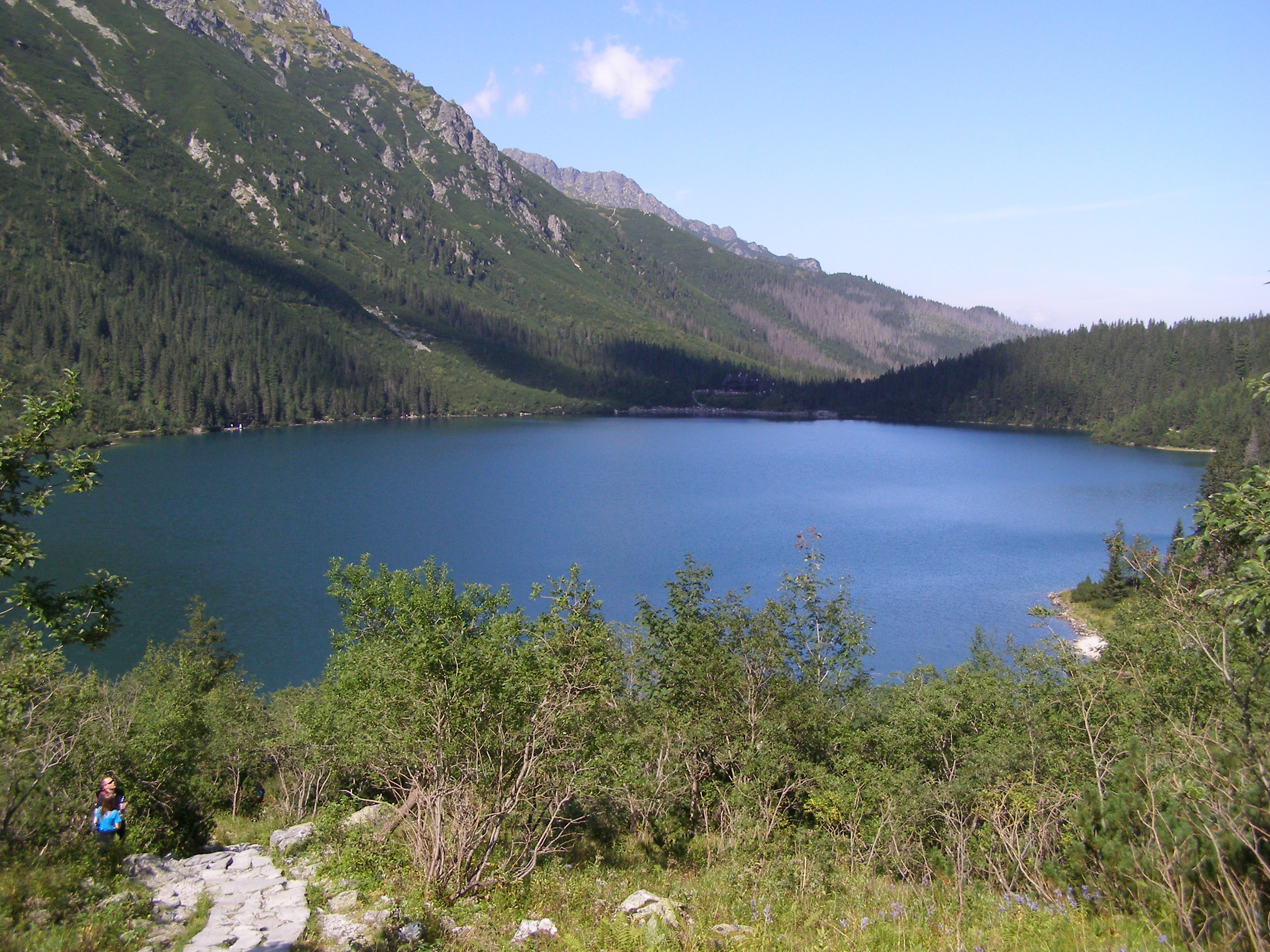 Tatra National Park - Morskie Oko